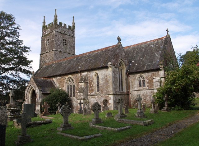 Parish church of St James the Less, Huish, Devon, seen from the southeast